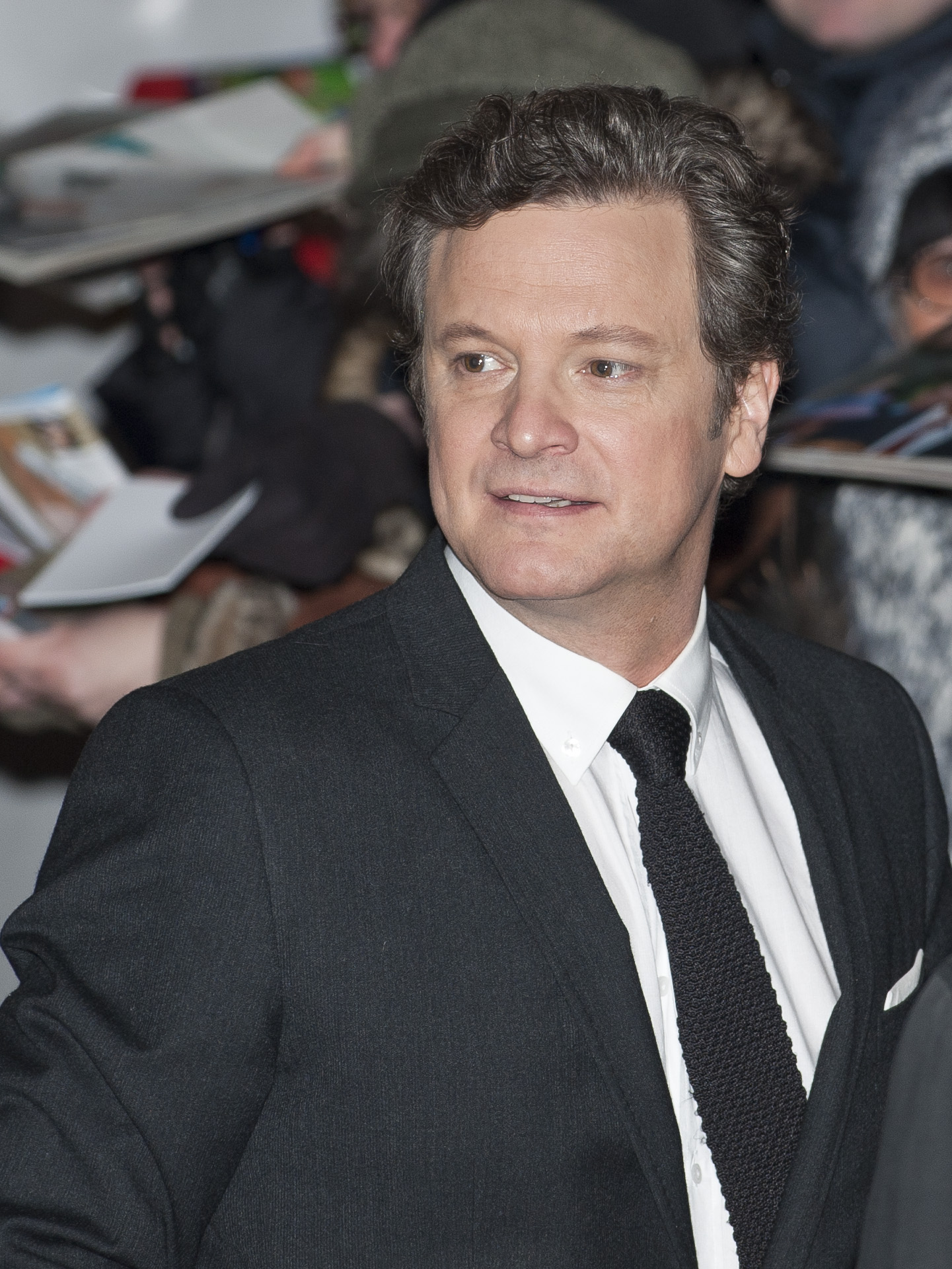 Colin Firth arriving at the press conference of The King's Speech at the Berlinale 2011